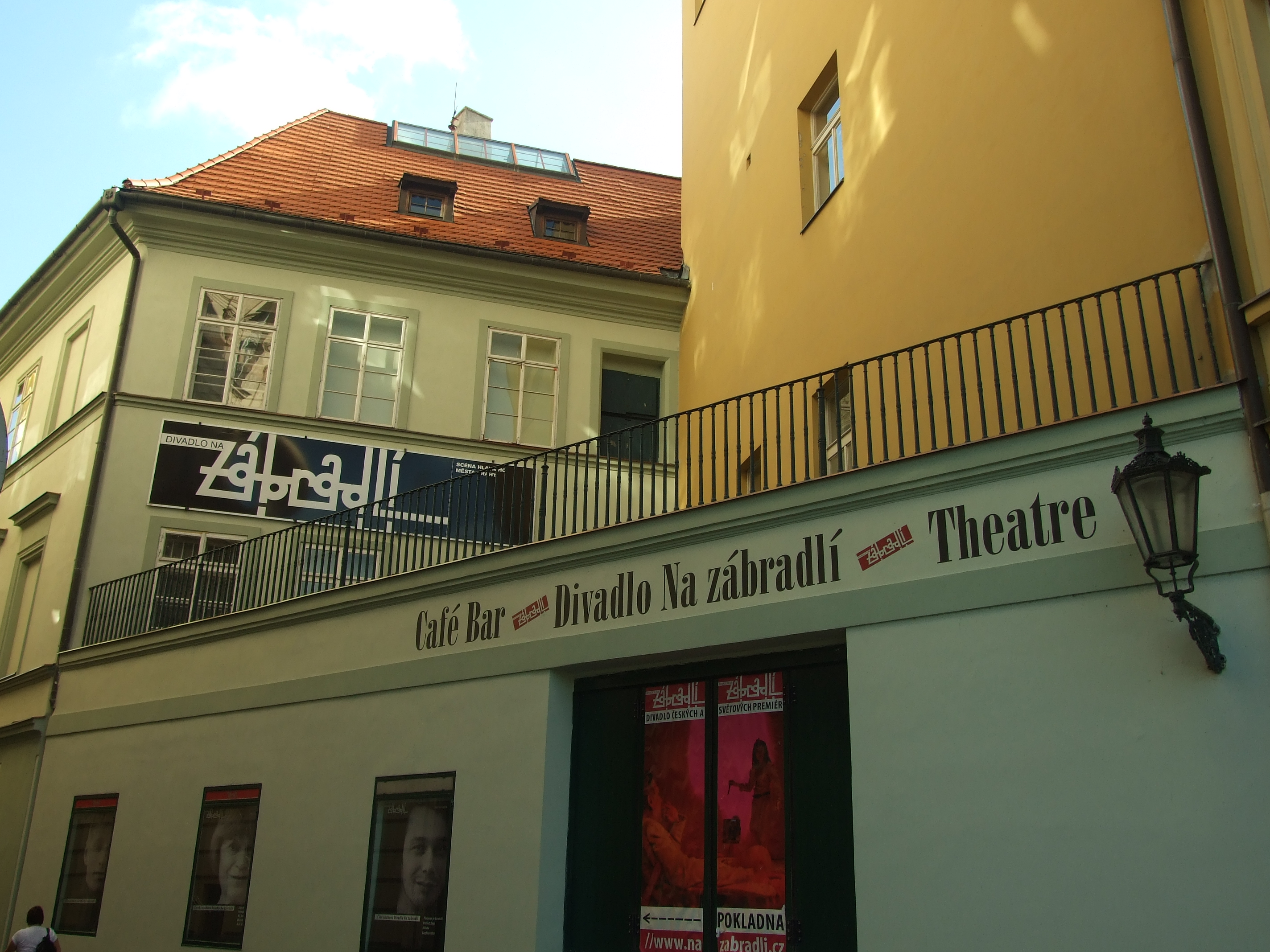 Na Zábradlí street in the central part of Prague, CZhelp